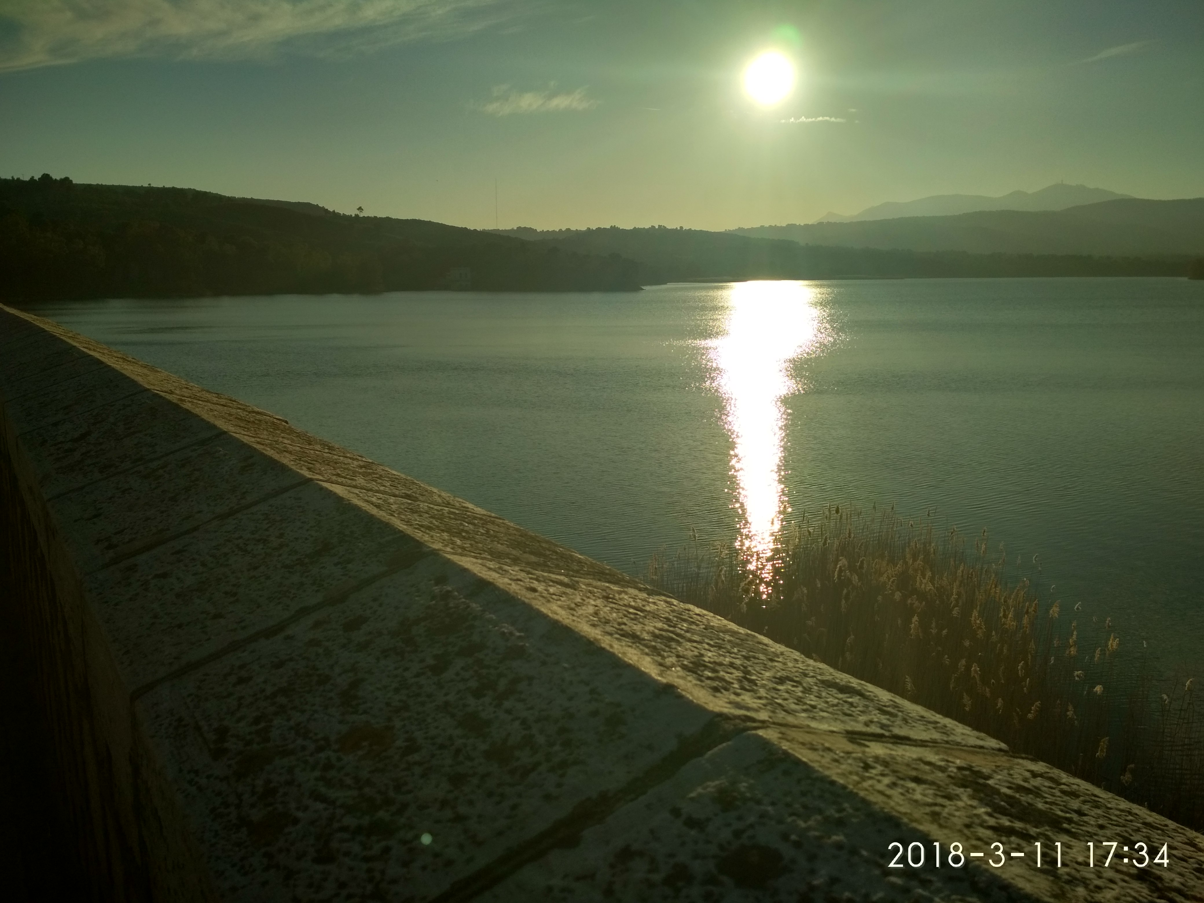 The Marathon's lake